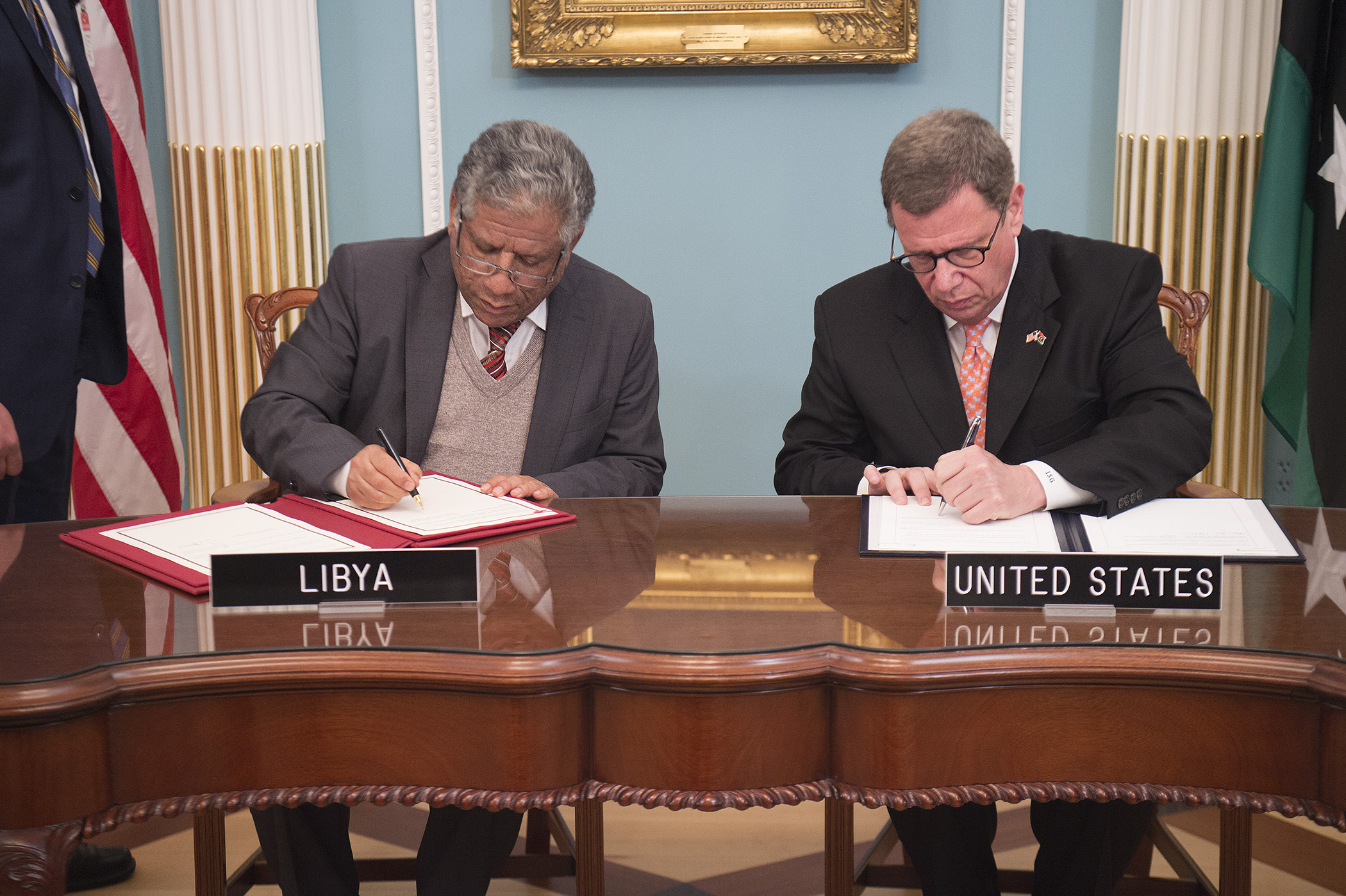 Under Secretary for Public Diplomacy and Public Affairs Steven Goldstein and Libyan Foreign Affairs Under Secretary for Political Affairs Lutfi Almughrabi sign the Memorandum of Understanding on cultural property protection, at the U.S. Department of State in Washington, D.C. on February 23, 2018. [State Department photo/ Public Domain]